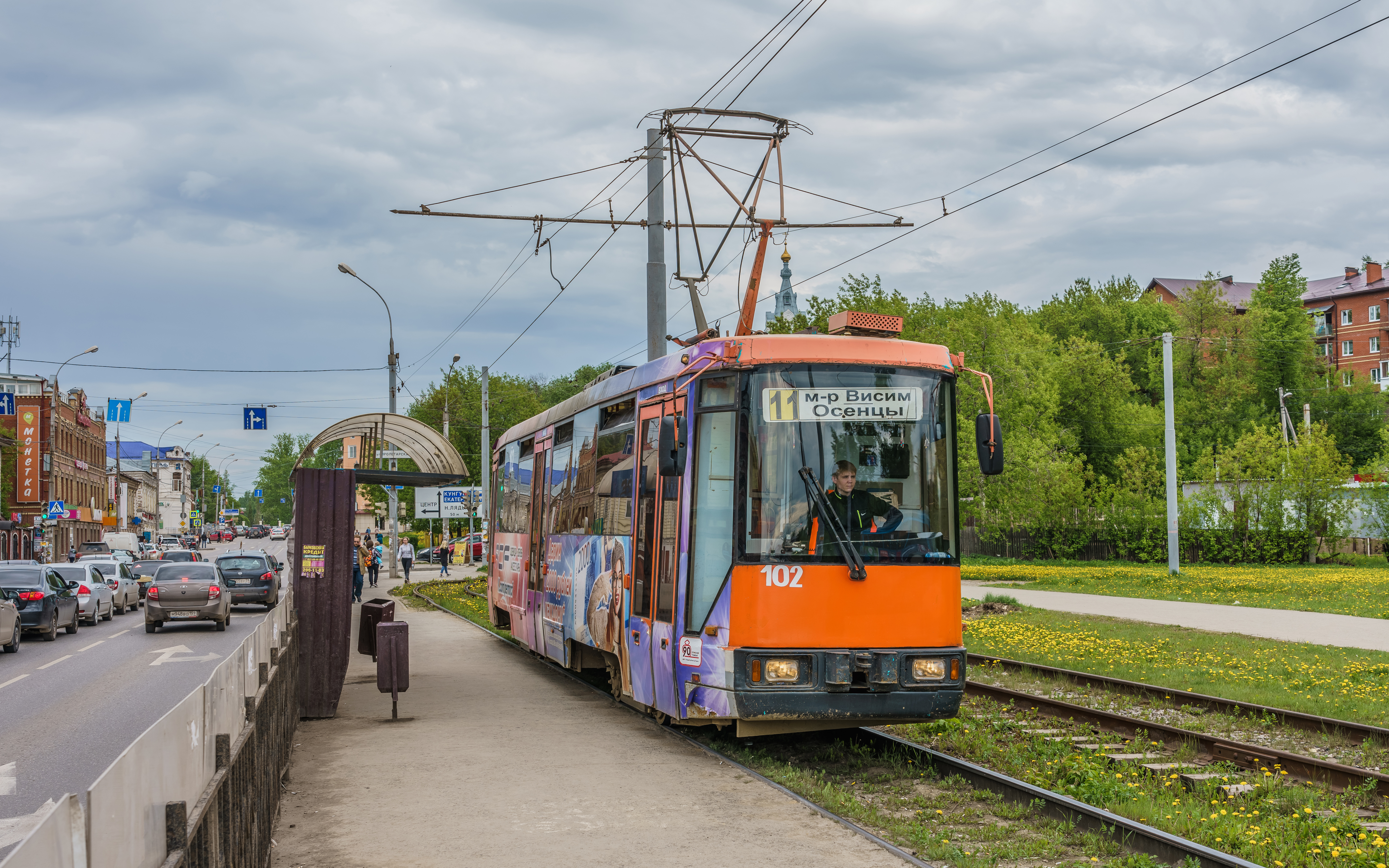 AKSM-60102 tram on Motovilikha loop (Mkr Visim stop) in Perm, Russia